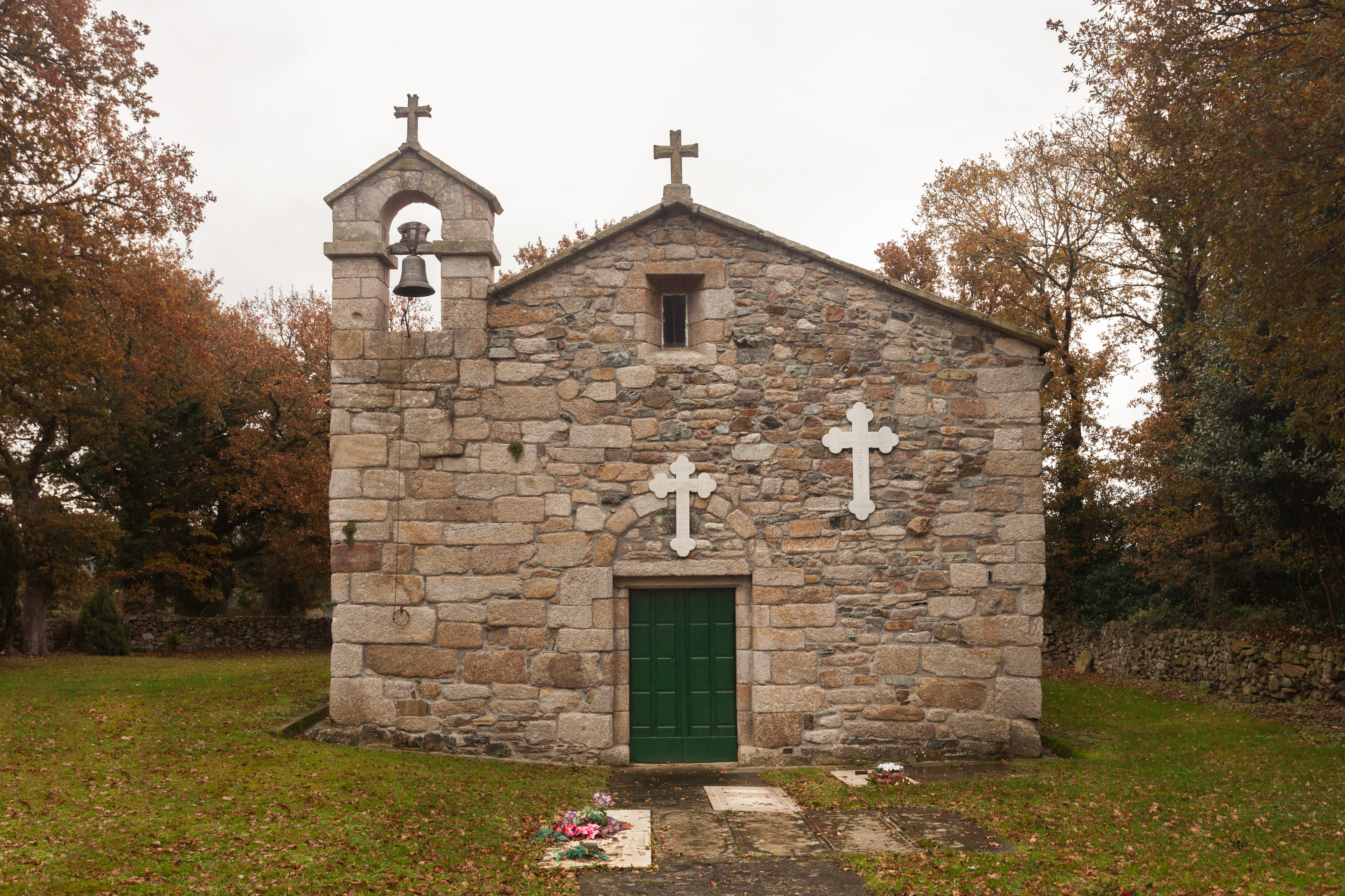 Saint Mary of A Ciadella, Sobrado, Galicia (Spain).